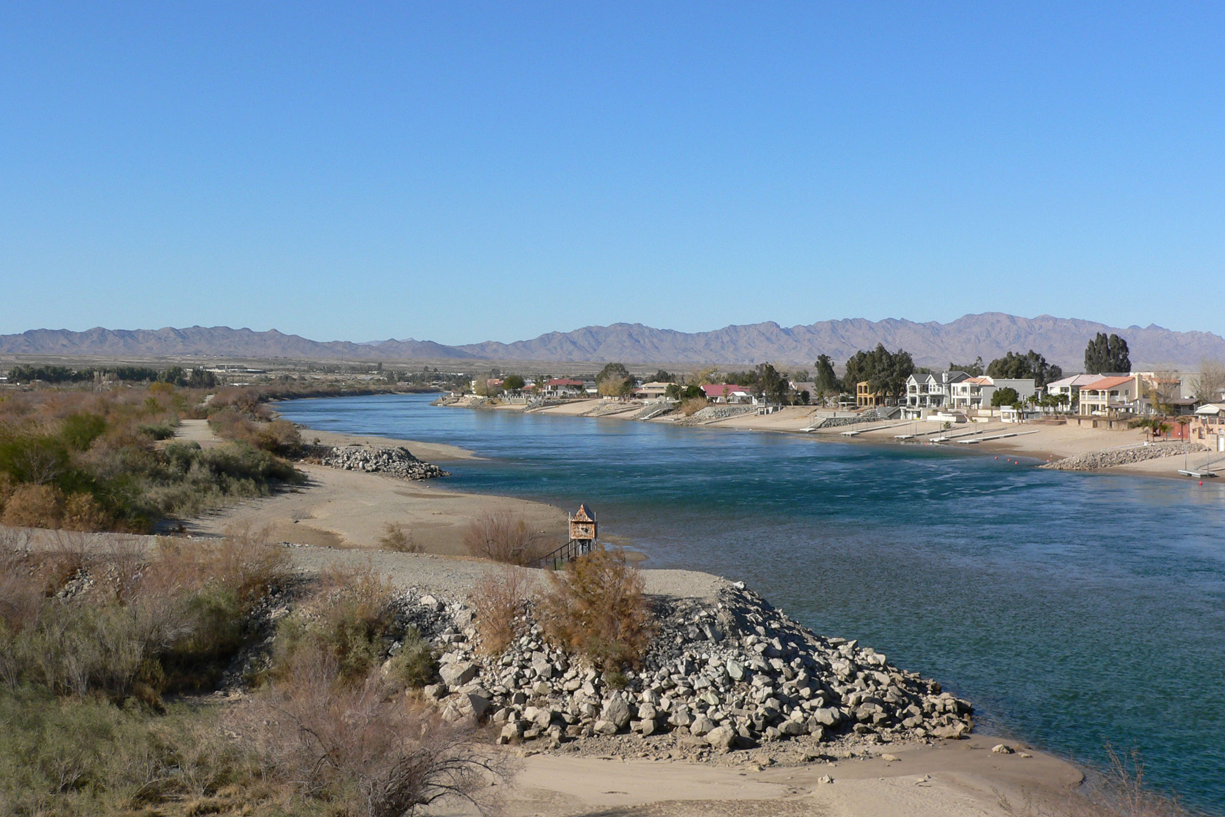 Colorado River at Needles, California, looking northwest